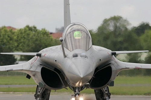 Rafale B at Paris Air Show 07